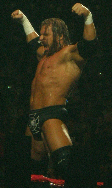 Triple H @ Sydney, Australia 'RAW' house show on the 9th of November '07